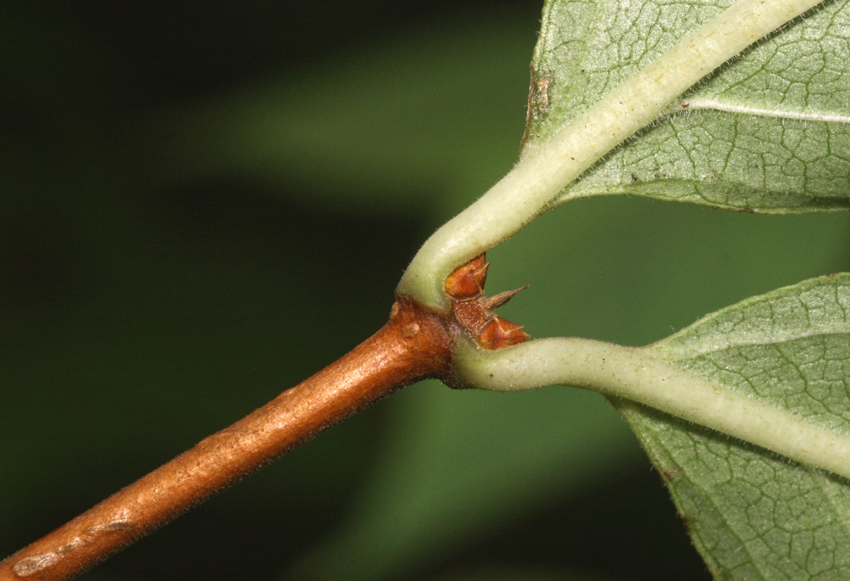 Dipelta floribunda. Detail of young branch with buds.